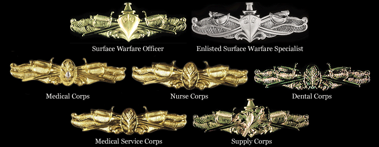 Image of Surface Warfare insignia used in the US Navy. For use in USN articles concerning awards.